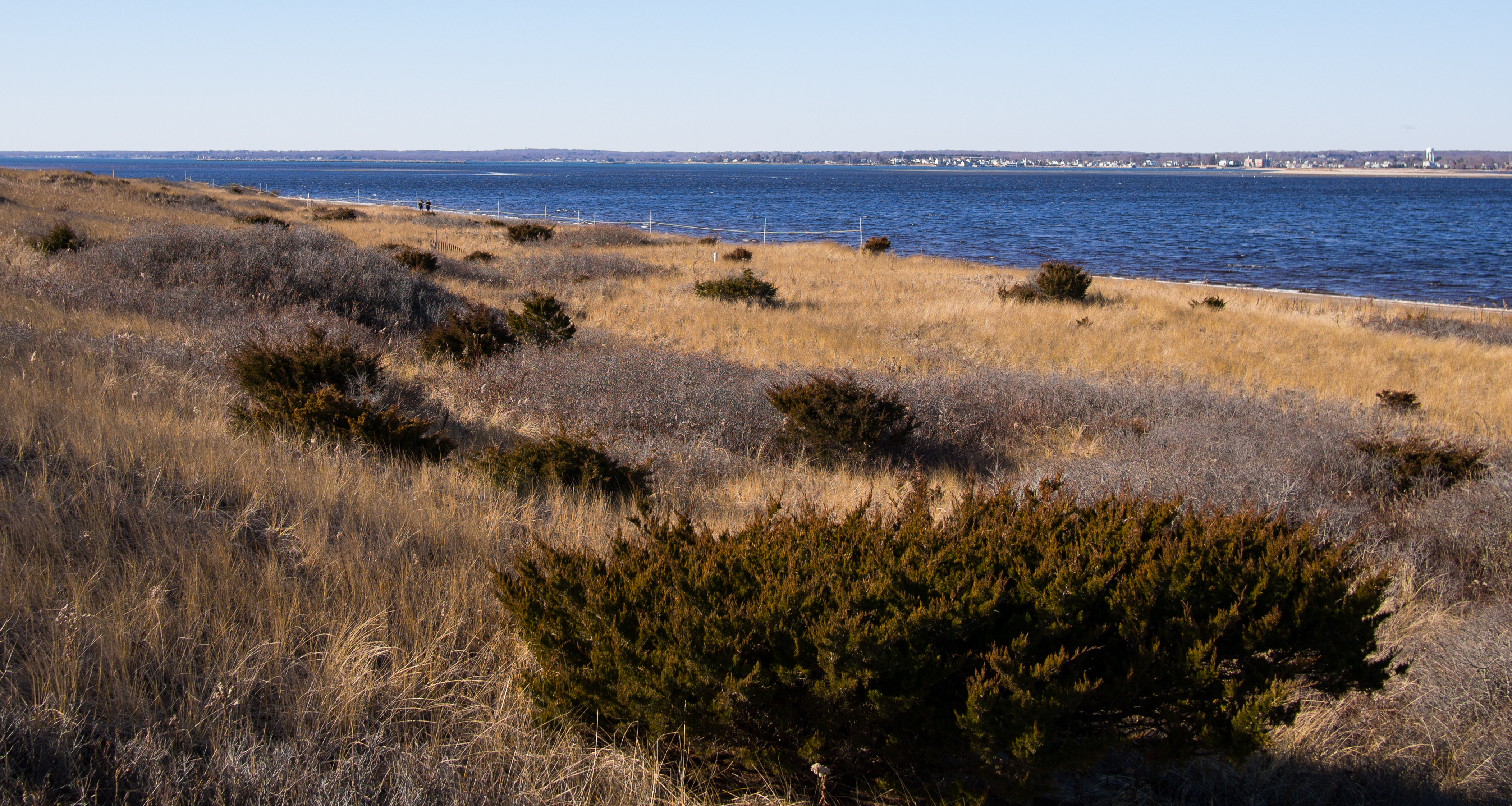 Napatree Point Conservation Area in the Watch Hill area of Westerly, Rhode Island.